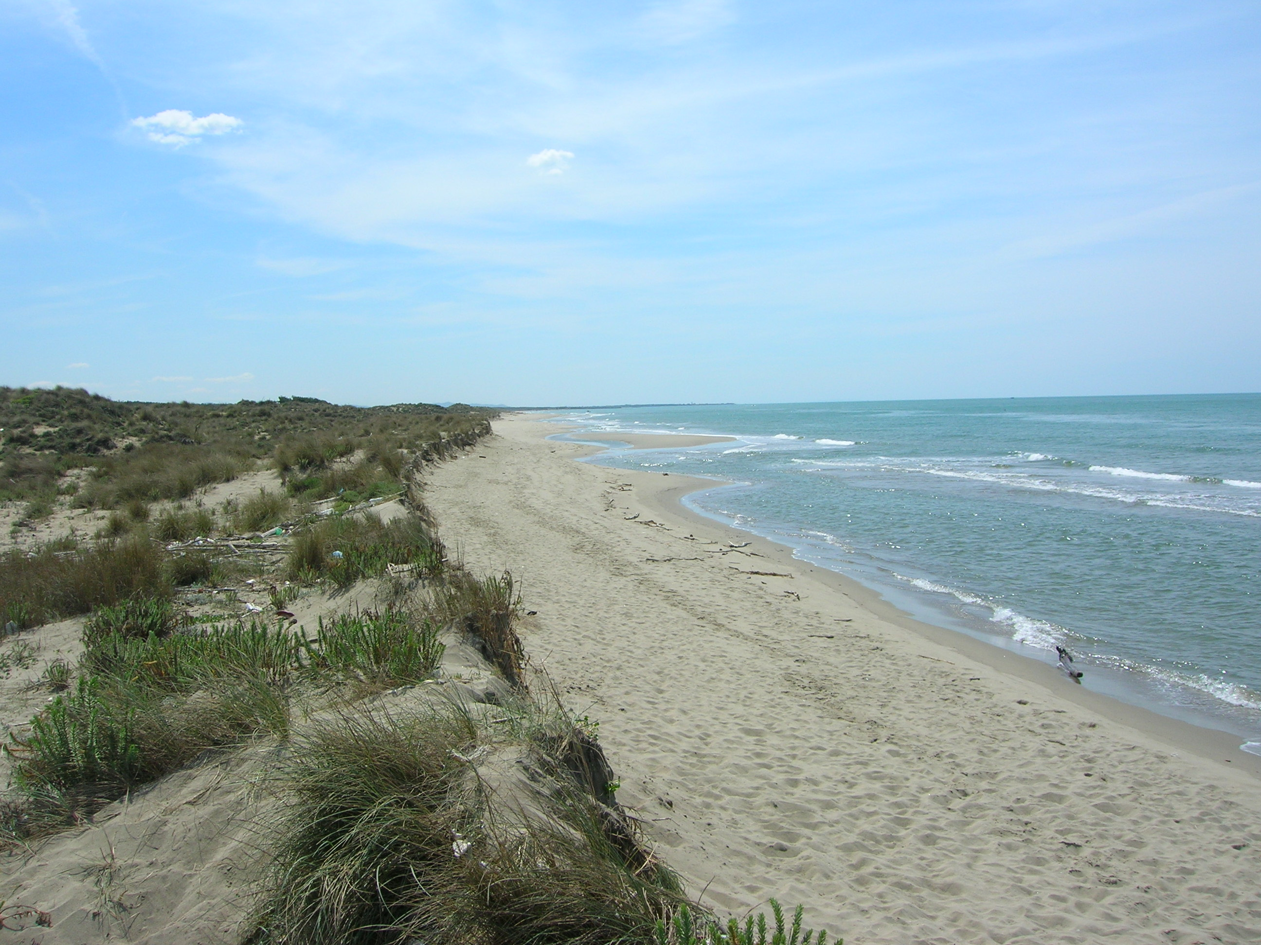 Gombo's beach in San Rossore, Pisa, Tuscany, Italy